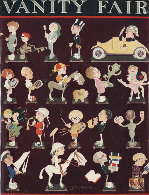 The cover of the April 1921 U.S. magazine Vanity Fair, showing people painting, playing polo, reading a guidebook, and other activities.